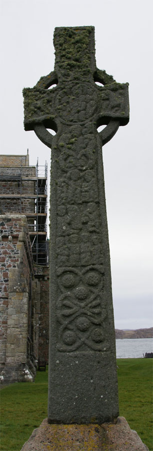 Iona Abbey - Island of Iona, Scotland - St Martin's Cross